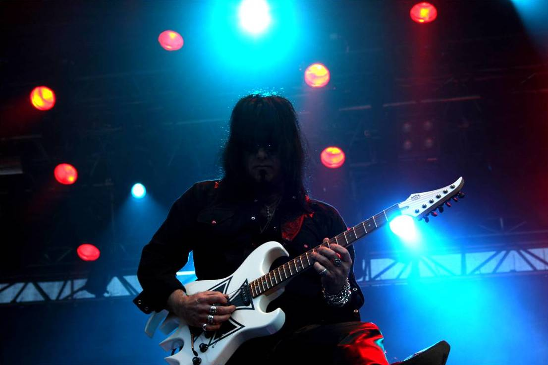 Joe Stump from HolyHell at Norway Rock Festival 2009